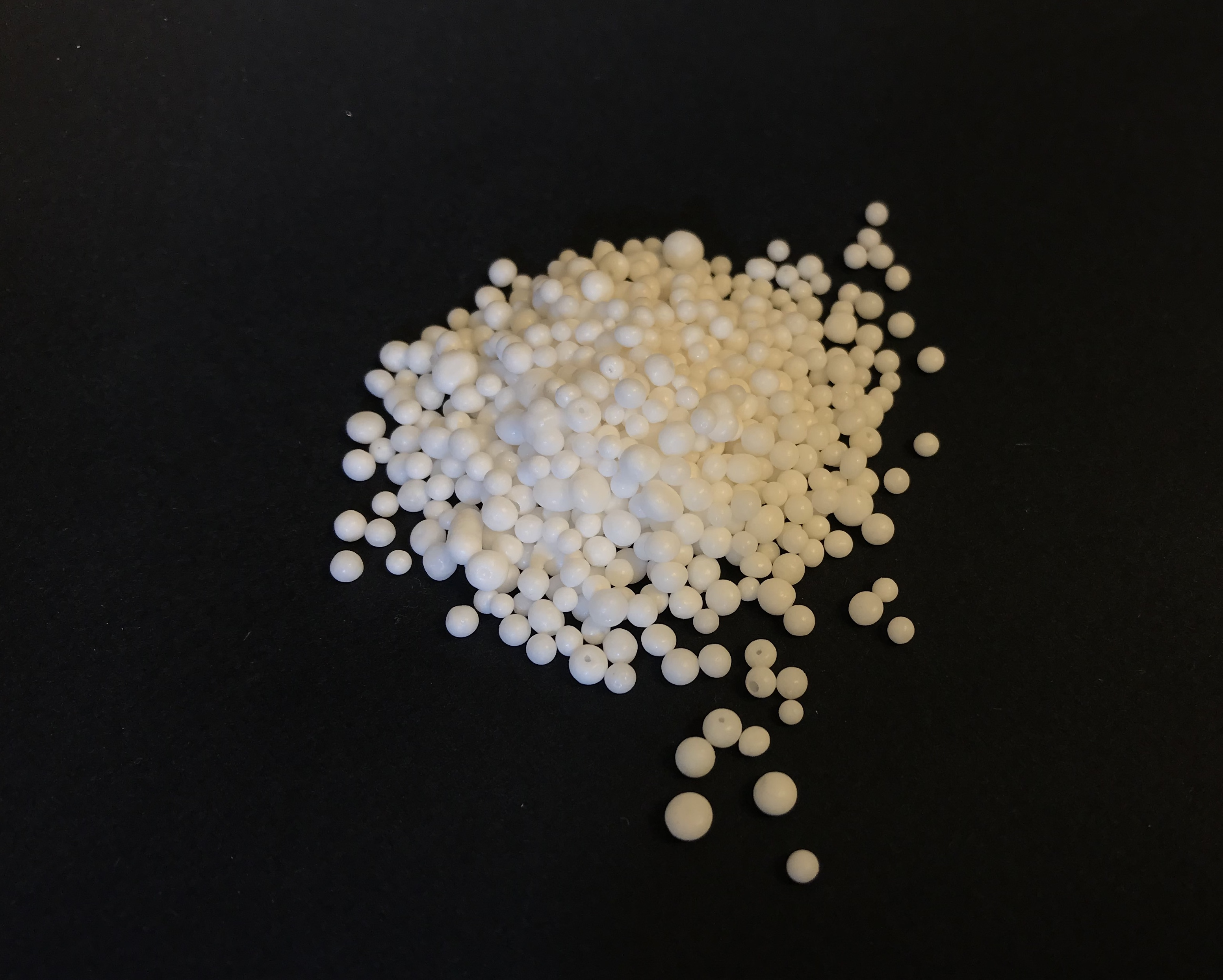 Ammonium nitrate in the form of a fertilizer containing up to 10% foreign matter.